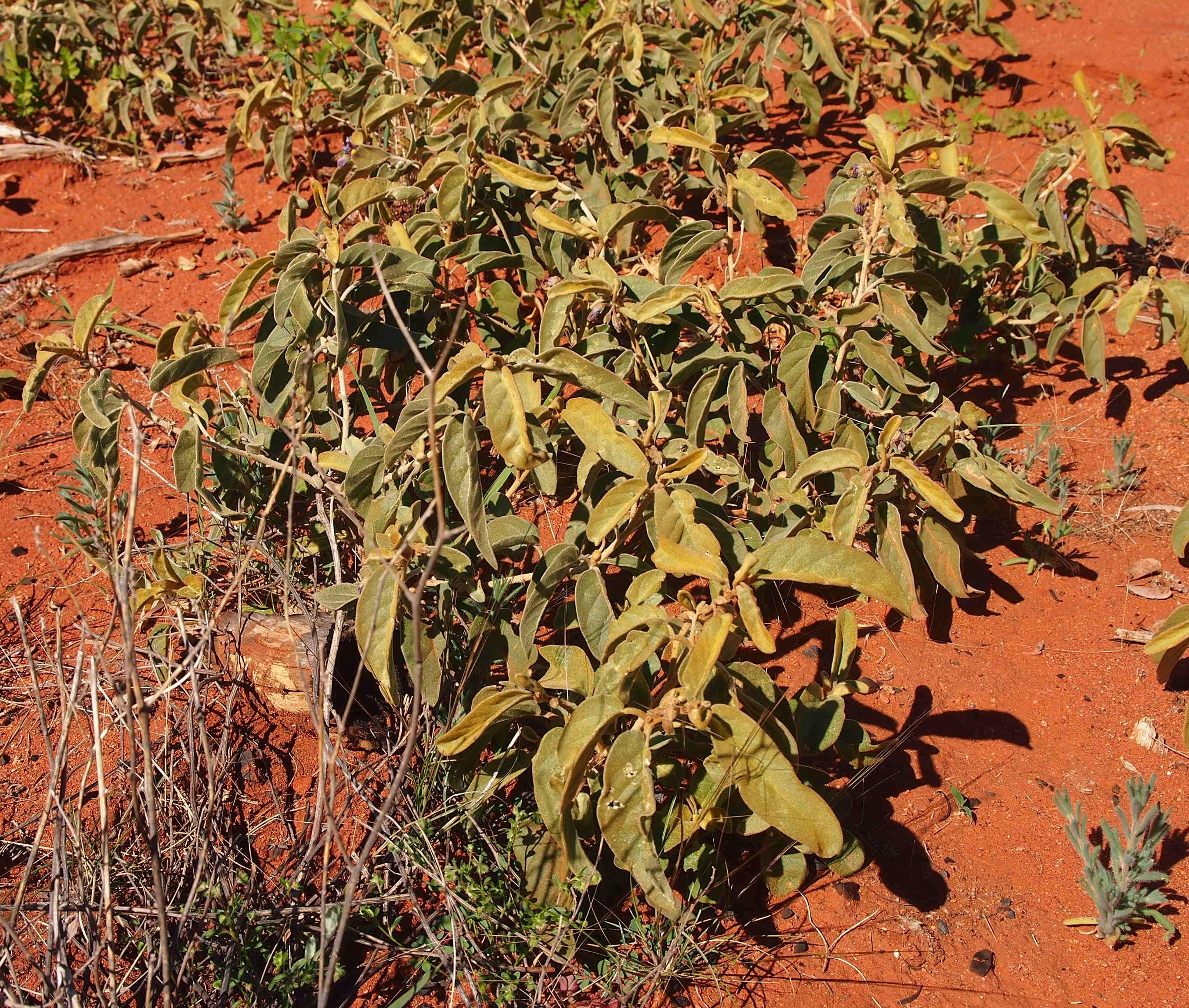 Solanum centrale